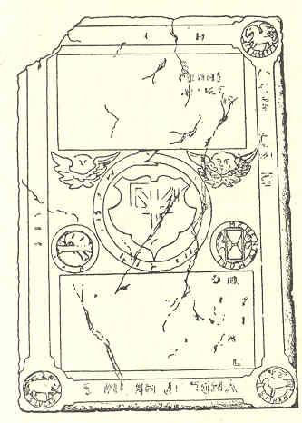 Johannes Messenius' gravestone at Oulu Cathedral in Oulu, Finland